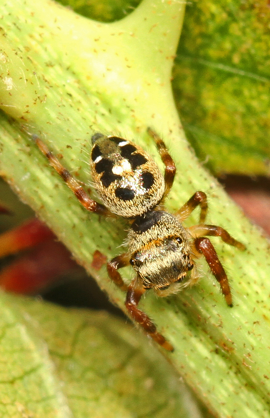 Jumping Spider - Phidippus princeps, Meadowwood Farm SRMA, Mason Neck, Virginia